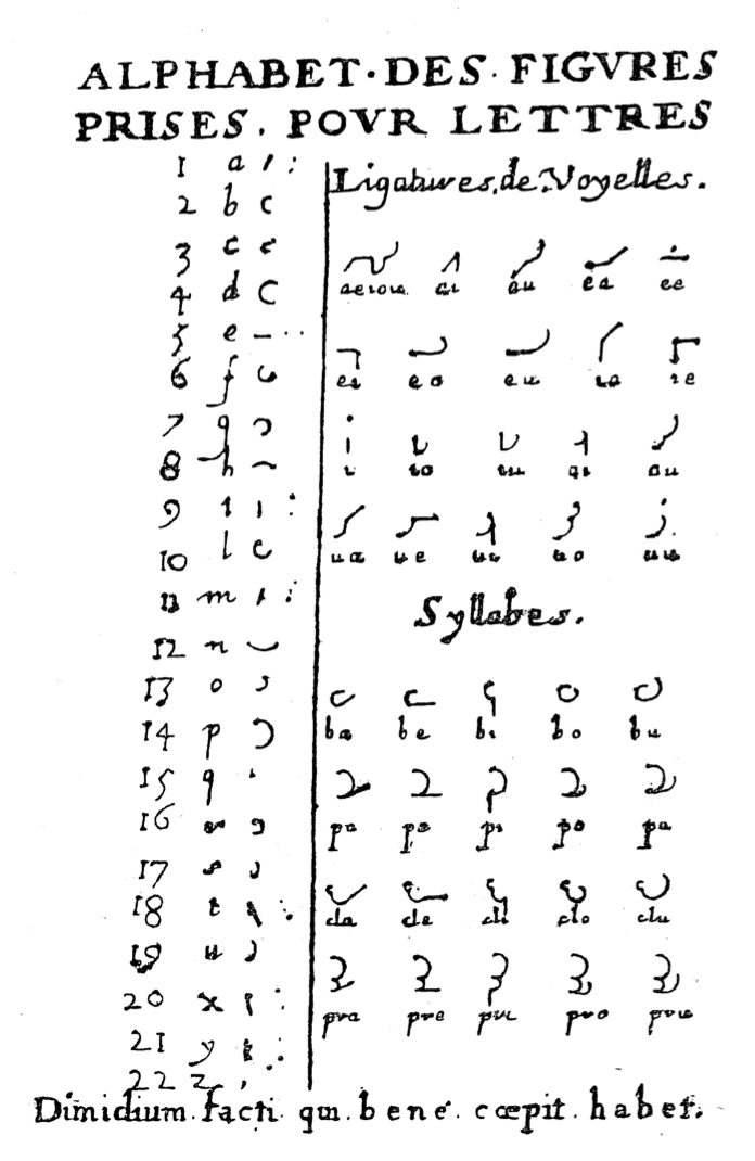 The alphabet of Jacques Cossard's French shorthand system. Page 6 of his book.